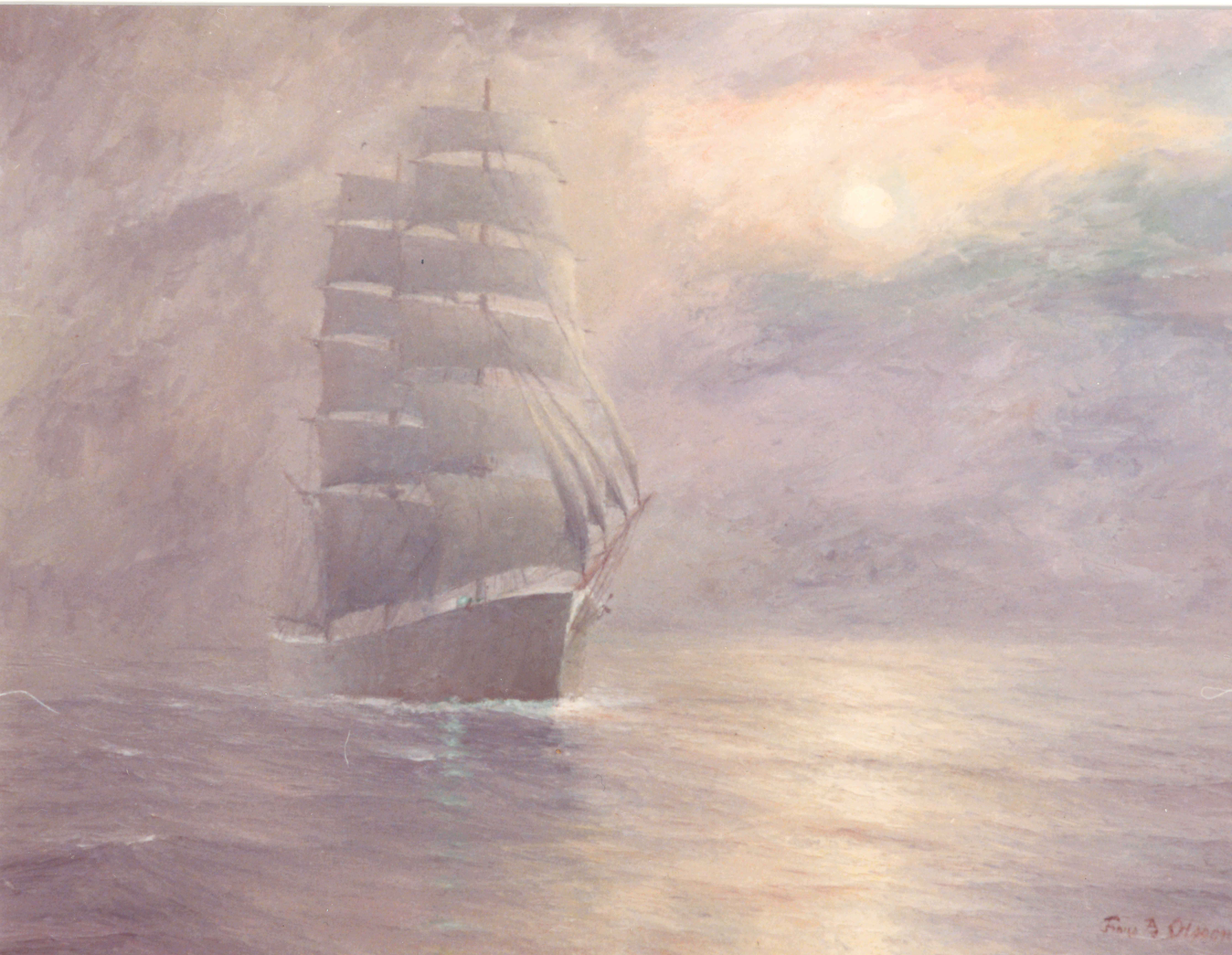 Marine painting by late Frans B. Olsson